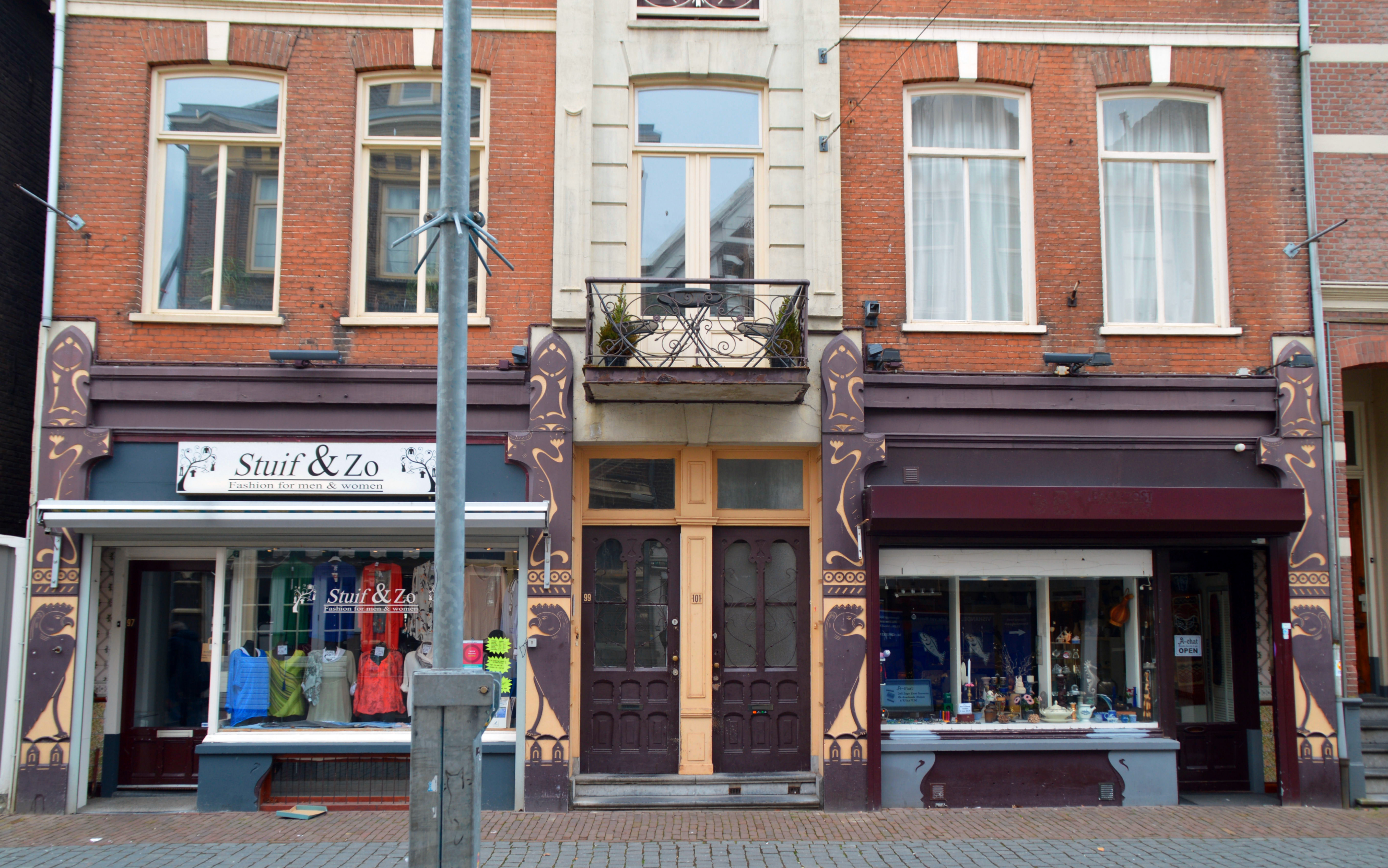 Lange Hezelstraat 99-101 Nijmegen Art Nouveau Jugendstil c. 1910